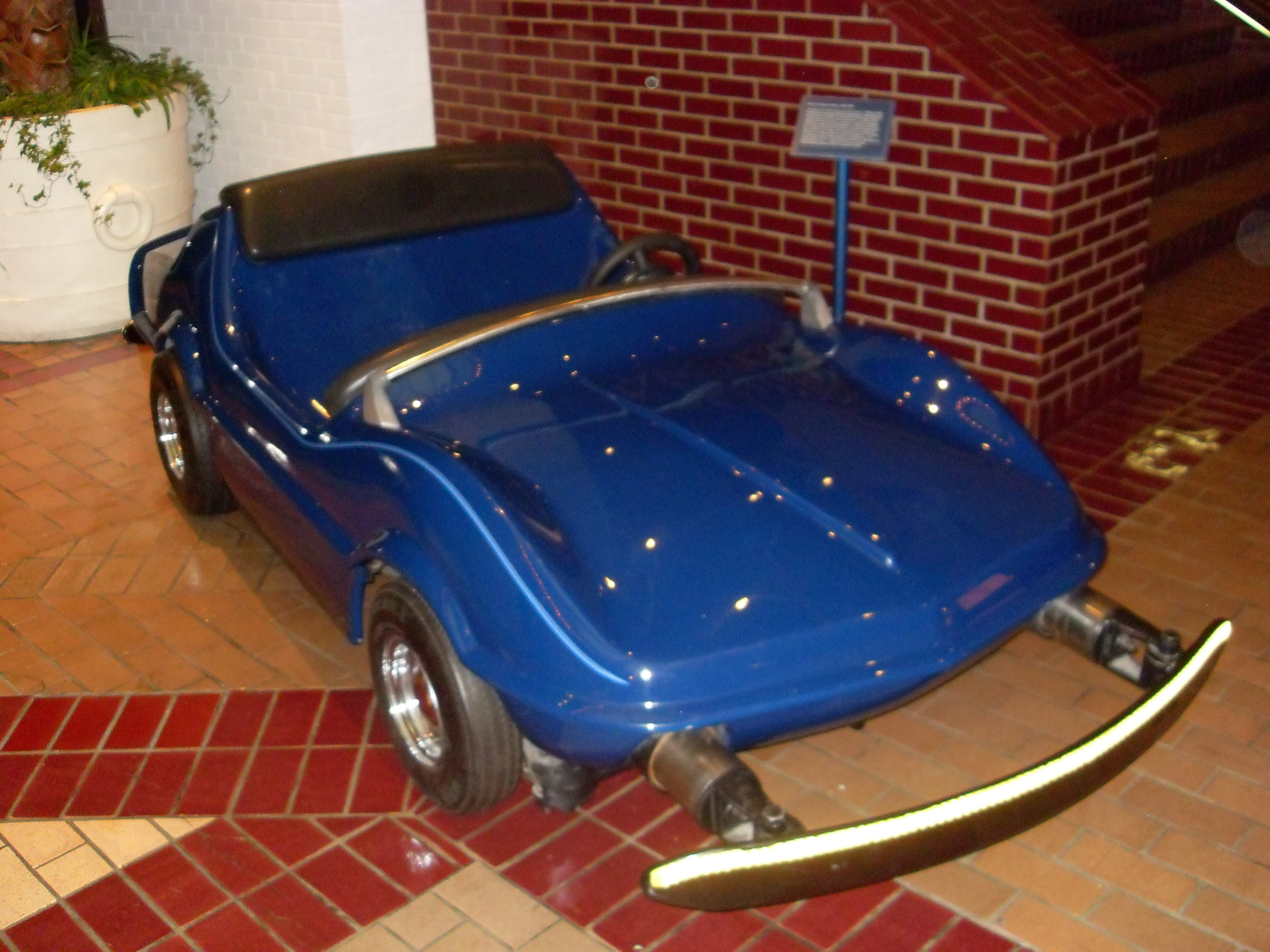 An old Autopia car inside the Disneyland Hotel.